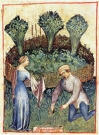 Asparagus (Sparagus) Nature: Its nature is moderately warm and moist in the first degree. Optimum: The fresh kind whose tip is turned downward toward the earth. Usefulness: It influences coitus positively and removes occlusions. Dangers: It is bad for the stomach lining. Neutralization of the Dangers: Boiled and then seasoned with salted water. From the Tacuinum of Paris